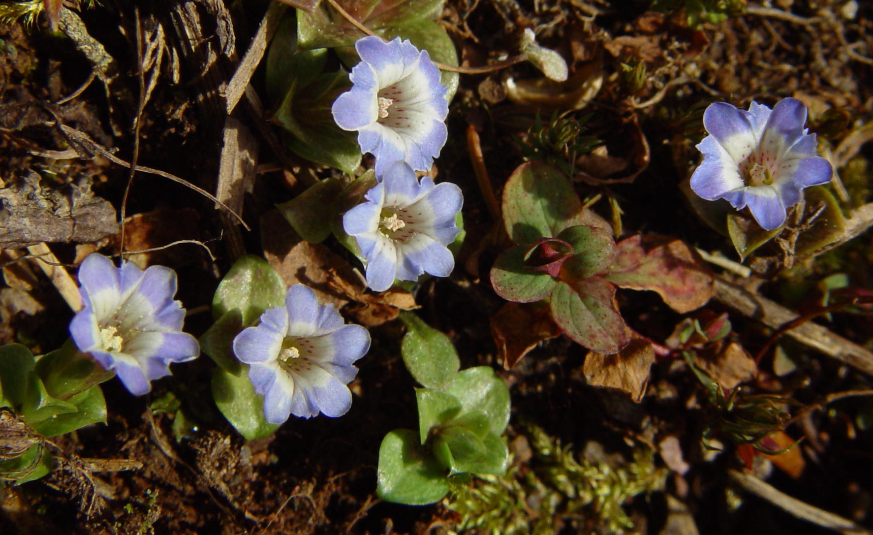 Gentiana laeviuscula in Akaishi Mountains, Iida, Nagano Prefecture, Japan.